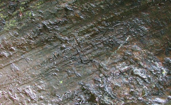 Detail of the Westford Knight, showing the "sword" and "shield" © 2004 Matthew Trump